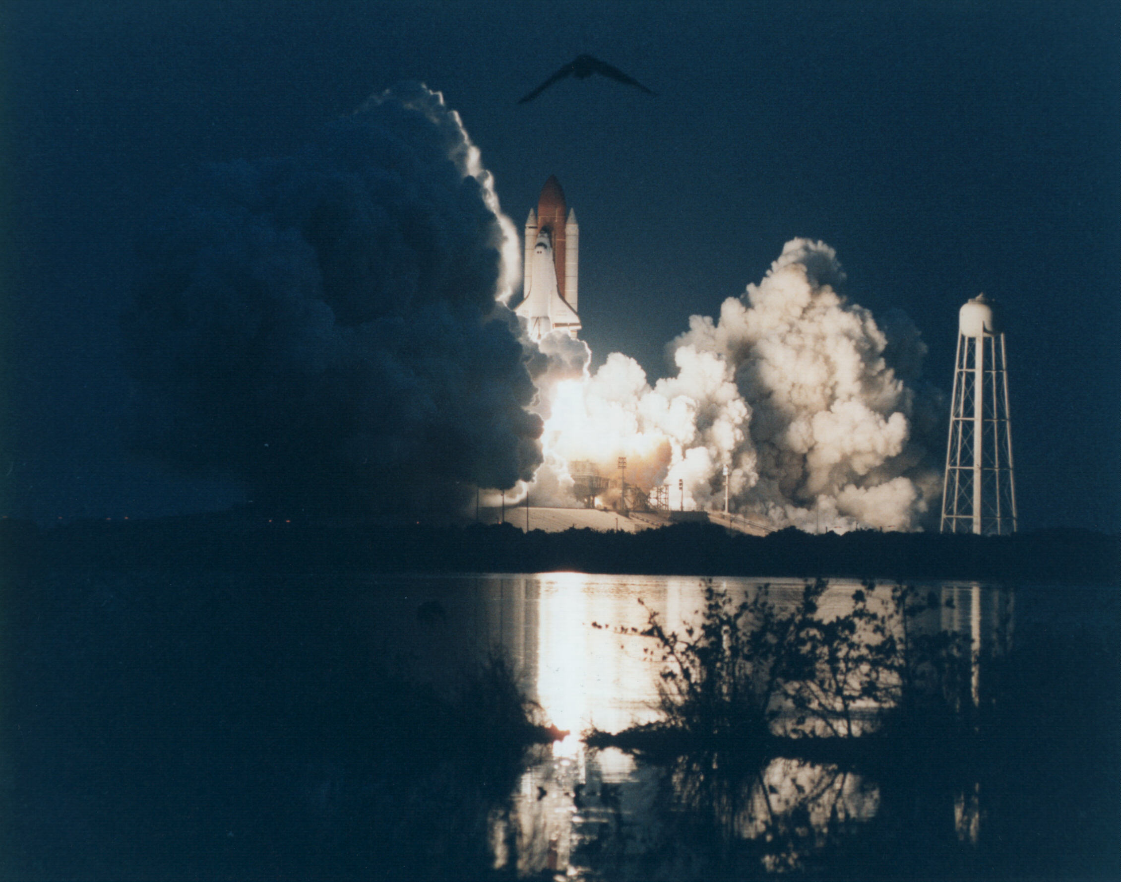 A flawless countdown culminates with an on-time liftoff as the Space Shuttle Endeavour lights up the morning sky. Endeavour was launched on Mission STS-77 from Pad 39B at 6:30:00 a.m. EDT, May 19. The fourth Shuttle mission of 1996 is devoted to the continuing effort to help open the commercial space frontier. Heading up the six-member crew is Commander John H. Casper. Curtis L. Brown Jr. is the pilot and there are four mission specialists on board: Daniel W. Bursch, Mario Runco Jr., Andrew S. W. Thomas and Marc Garneau, who represents the Canadian Space Agency. During the approximately 10-day mission, the astronauts will perform a variety of payload activities, including microgravity research aboard the SPACEHAB-4 module, deployment and retrieval of the Spartan 207 carrying the Inflatable Antenna Experiment (IAE) and deployment and rendezvous with the Passive Aerodynamically-Stabilized Magnetically-Damped Satellite (PAMS).